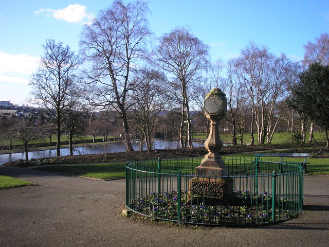 Sundial in Inverleith Park The Sundial in Inverleith Park with the pond in the background 127448. The City Council is spending a considerable amount of money on restoring the park with new walkways, benches and other facilities.